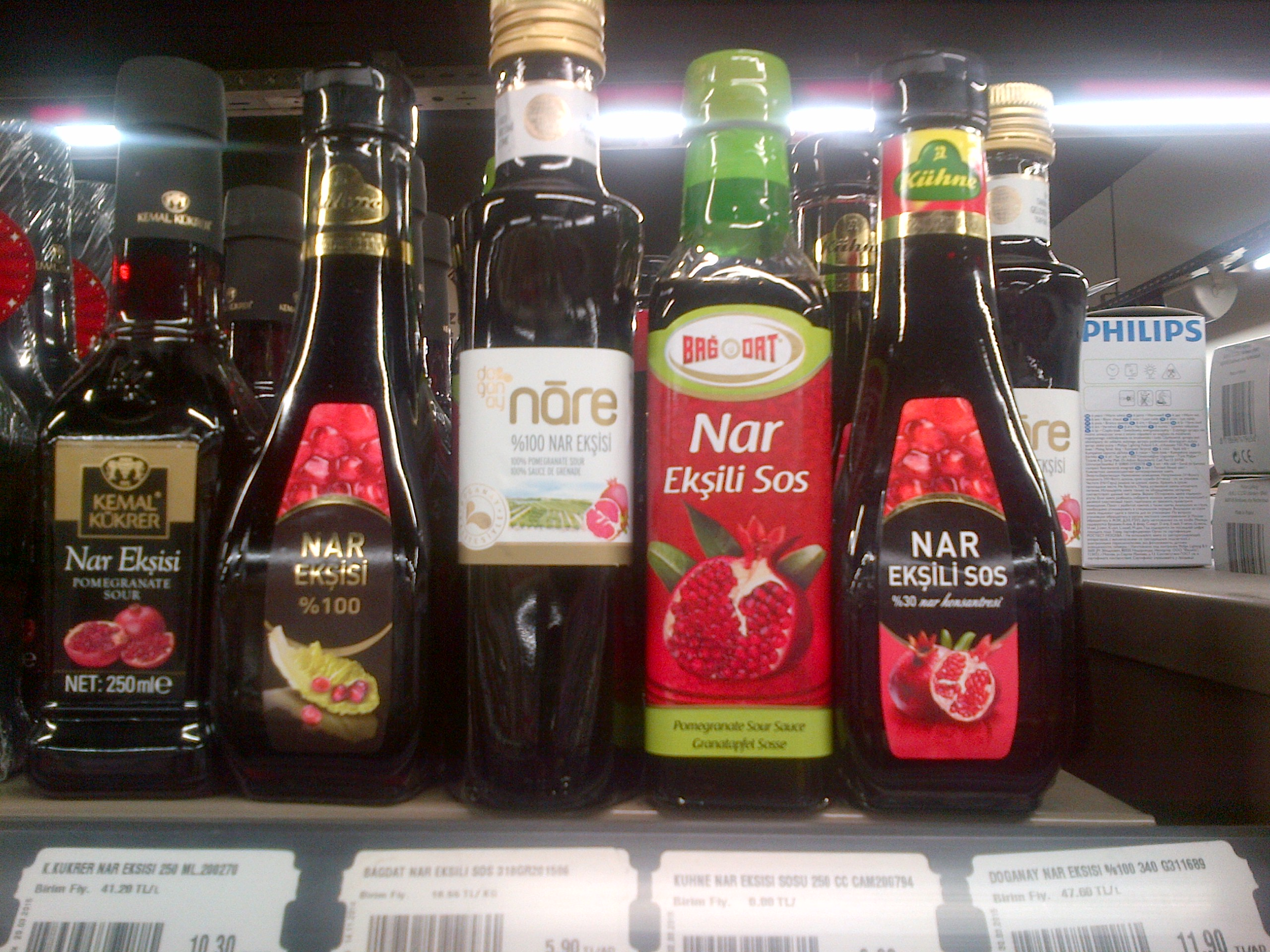 Nar ekşisi ("Pomegranate sour" in Turkish) is a widely used salad sauce in Turkey. To the left, authentic (pure) "nar ekşisi", to the right "nar ekşili sos" (sauce with nar ekşisi), a cheaper variant, on a supermarket shelf in Ankara.